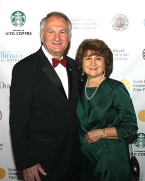 Nassau County Comptroller George Maragos and his Wife Angela attend the the movie release of the Great Gatsby an the Gold Coast.